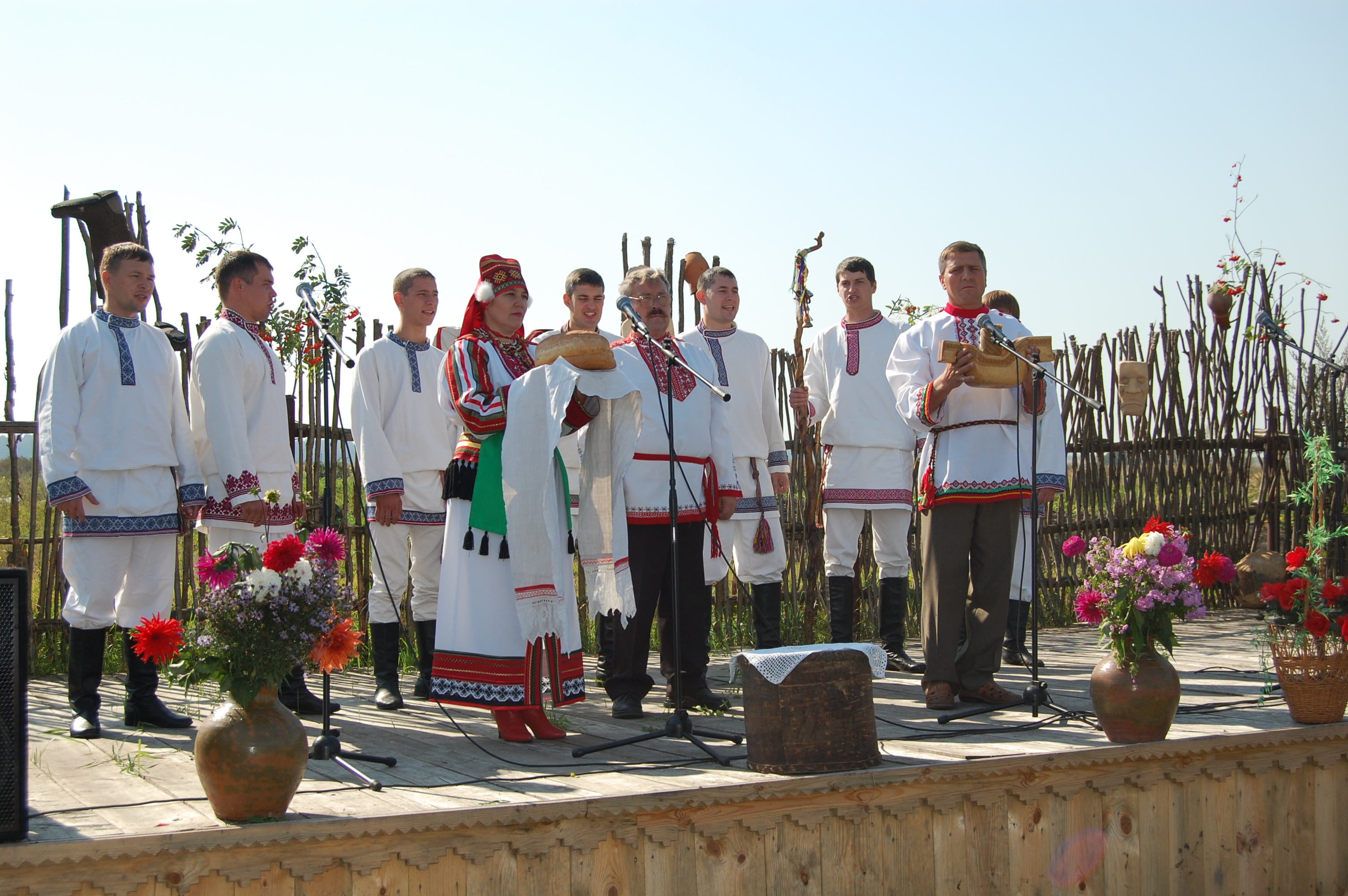 Festival of the ancient Erzya song «Doramas terdy» (Russian «Call of the Torama»). Performs a folk-group «Torama». MUK «Ethnographic Museum «Ethno-kudo» named after V. Romashkin». Podlesnaya Tavla, Kochkurovsky district of Mordovia.